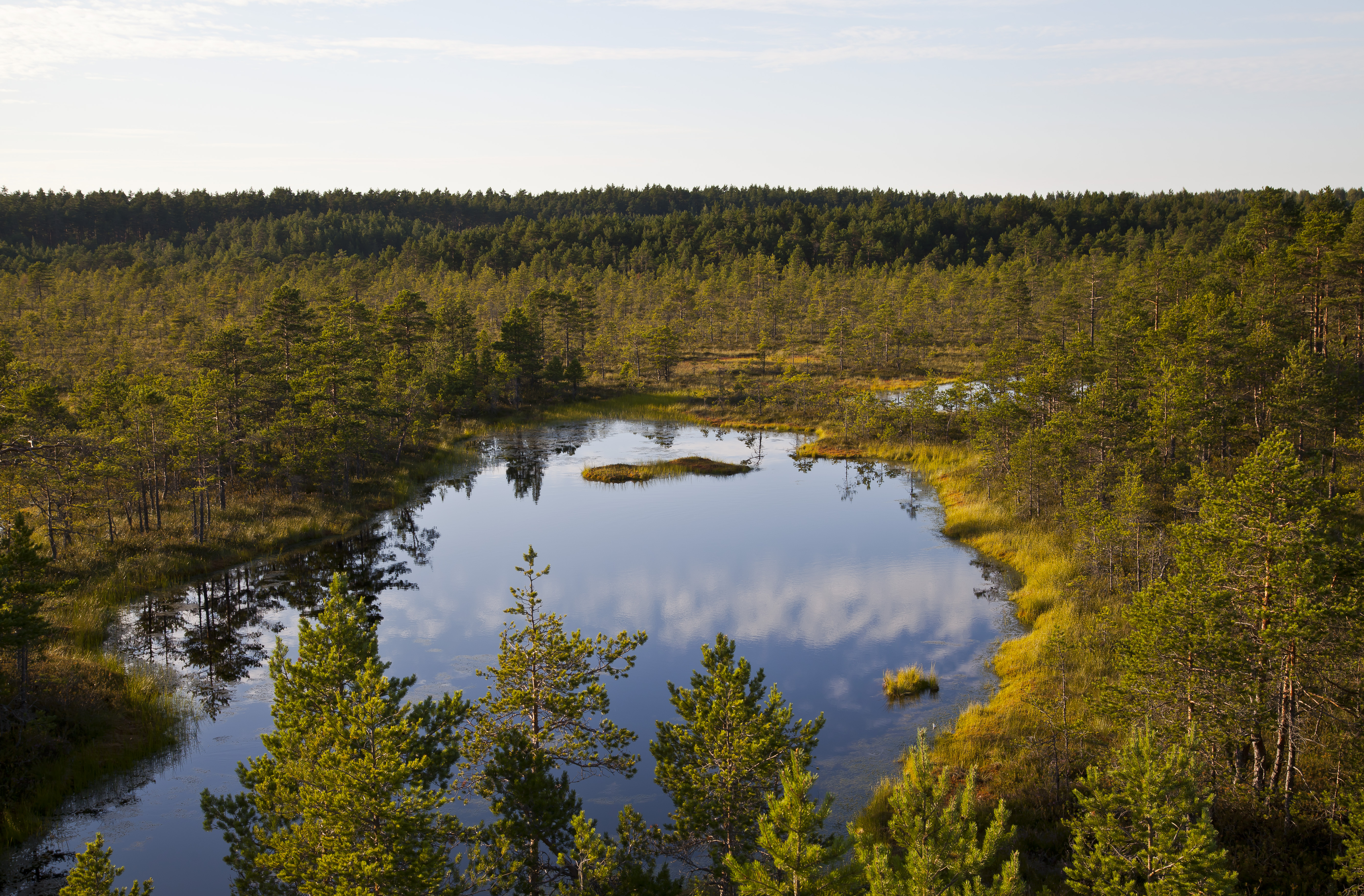 Viru bog, Lahemaa National Park, Estonia